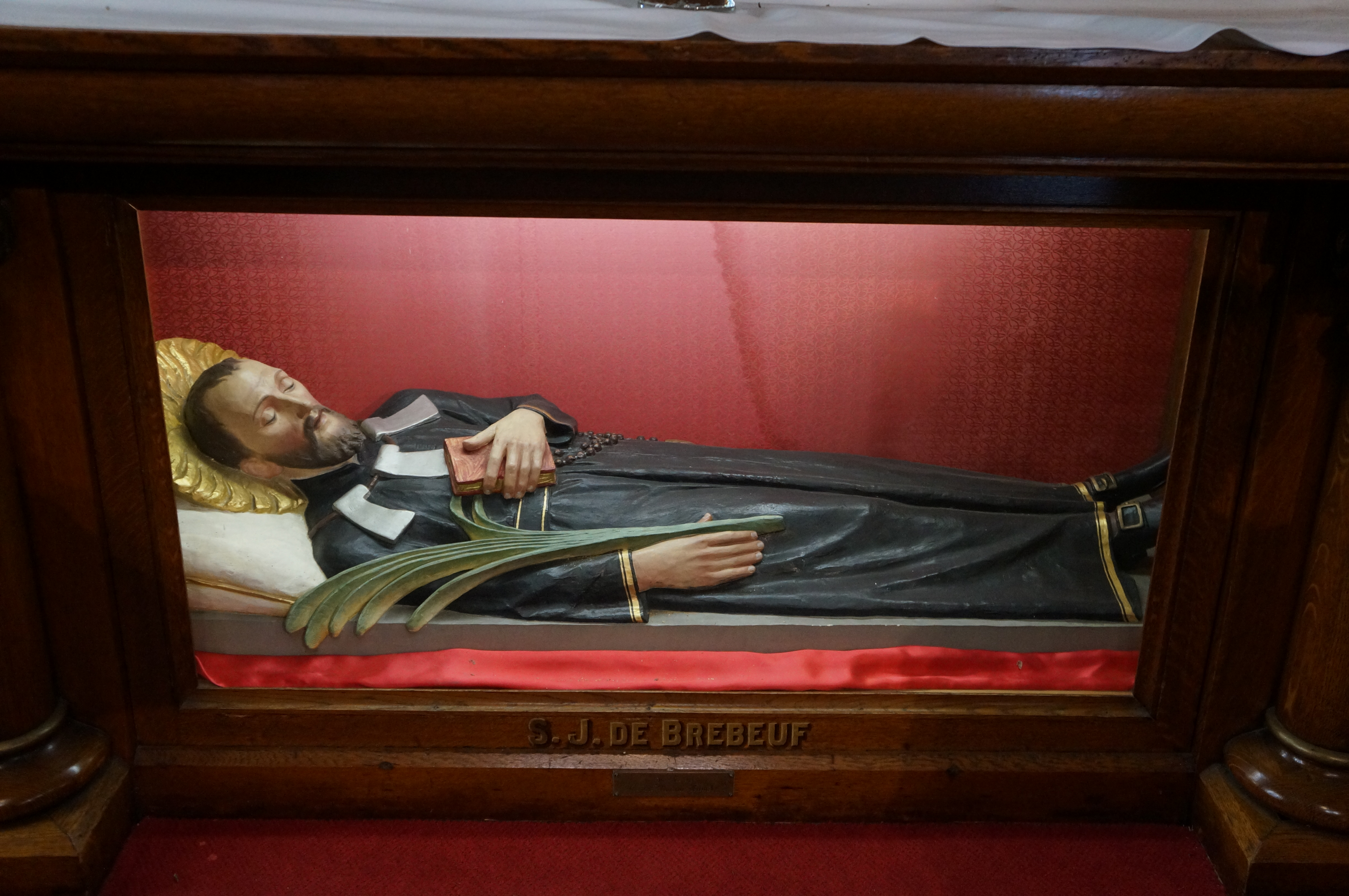 Statue of St. Jean de Brefeuf at Martyrs Shrine Midland, ON.